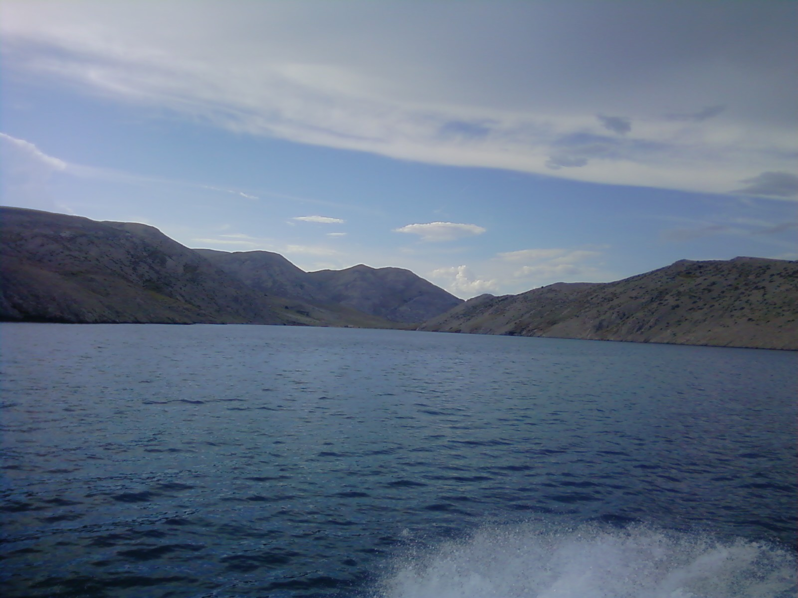 Vela Luka bay on southeast of island Krk in Croatia